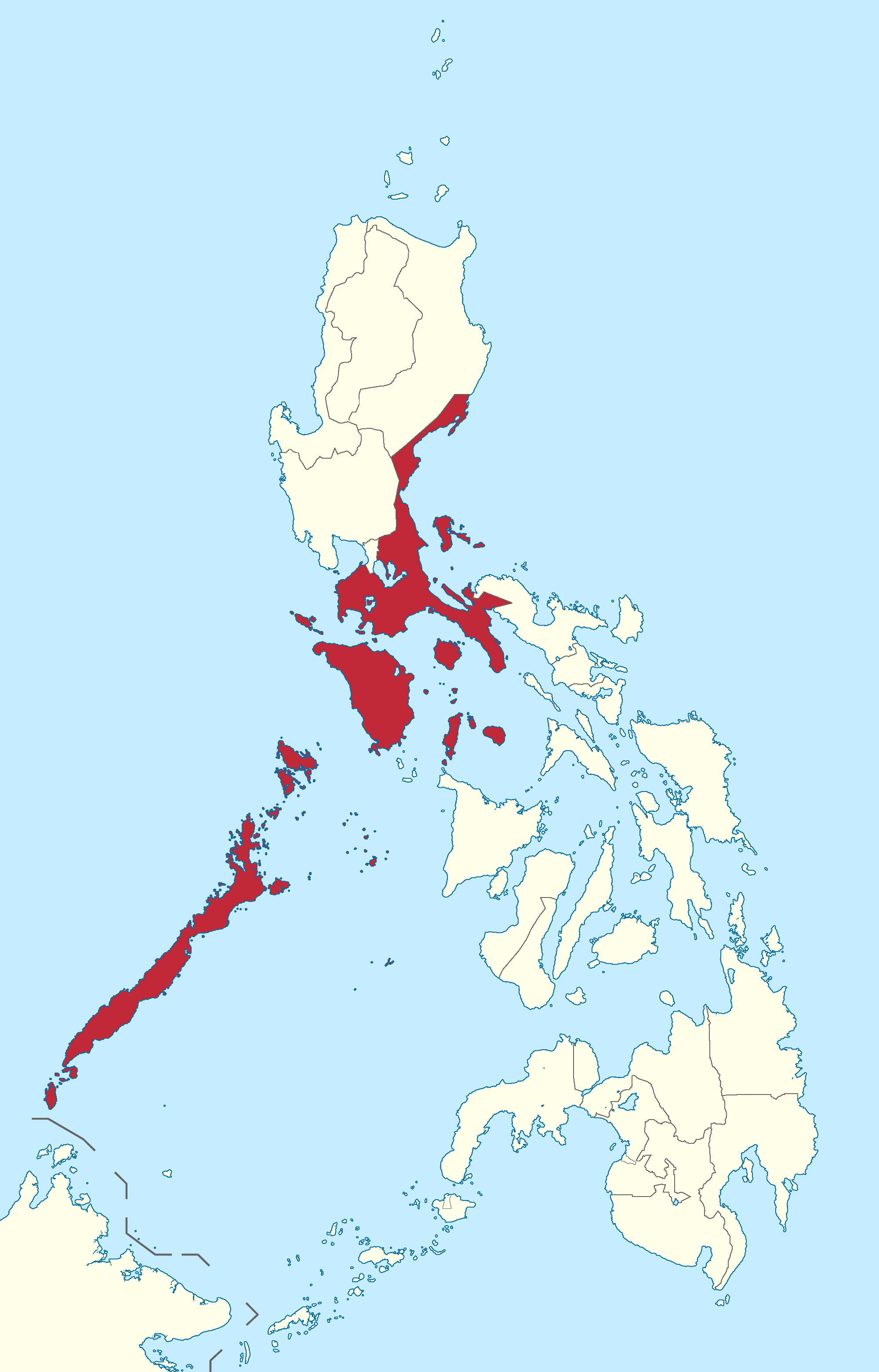 Location of the defunct Southern Tagalog region in the PhilippinesTagalog: Kinaroroonan ng dating rehiyon ng Timog Katagalugan sa Pilipinas